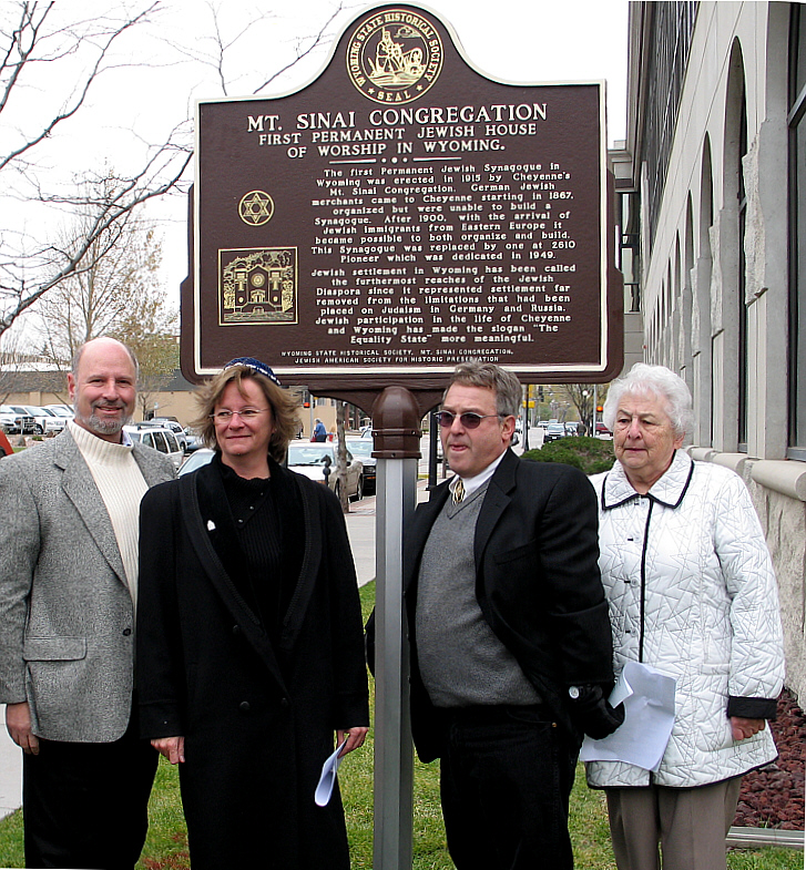 Marker dedication, Cheyenne, Wyoming